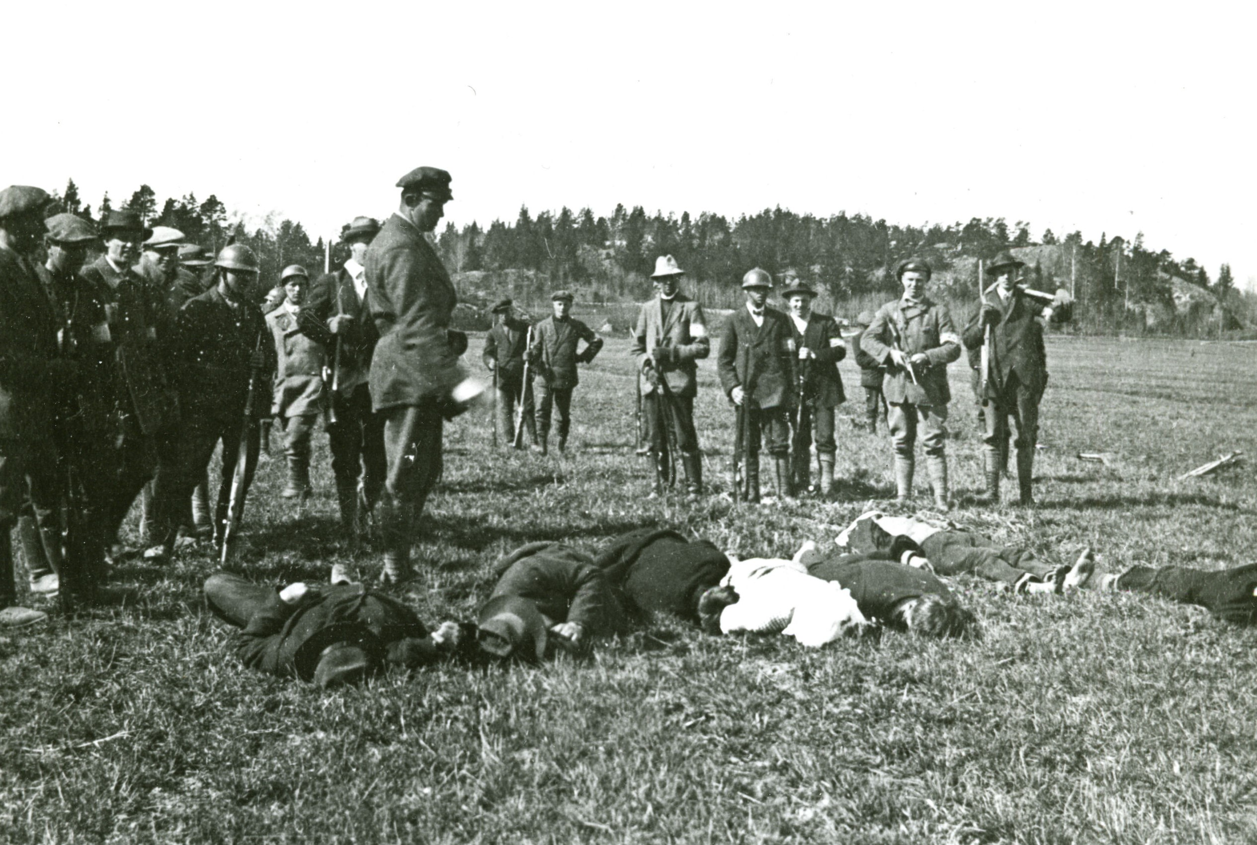 The execution of Red Guard members, including at least one woman, in Västankvarn, Ingå, Finland.